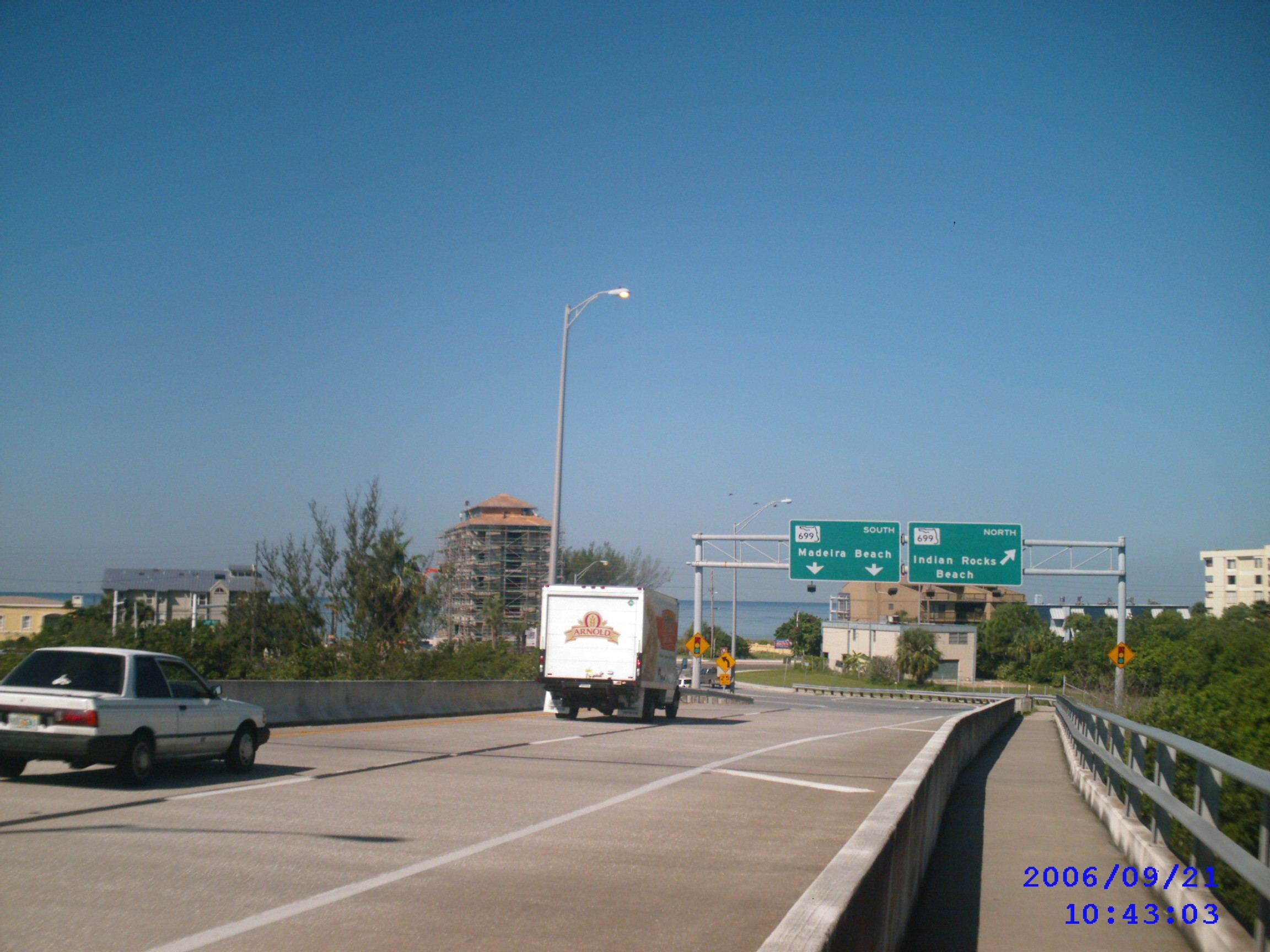 Looking west toward Indian Shores from bridge over Intracoastal Waterway. Vupoint DC-306AT 3.1 megapixel digital camera.